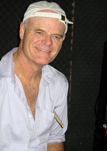 With drumstick under his arm! American jazz and rock musician John Molo is a Grammy Award achiever- known most for performing with Bruce Hornsby and The Grateful Dead